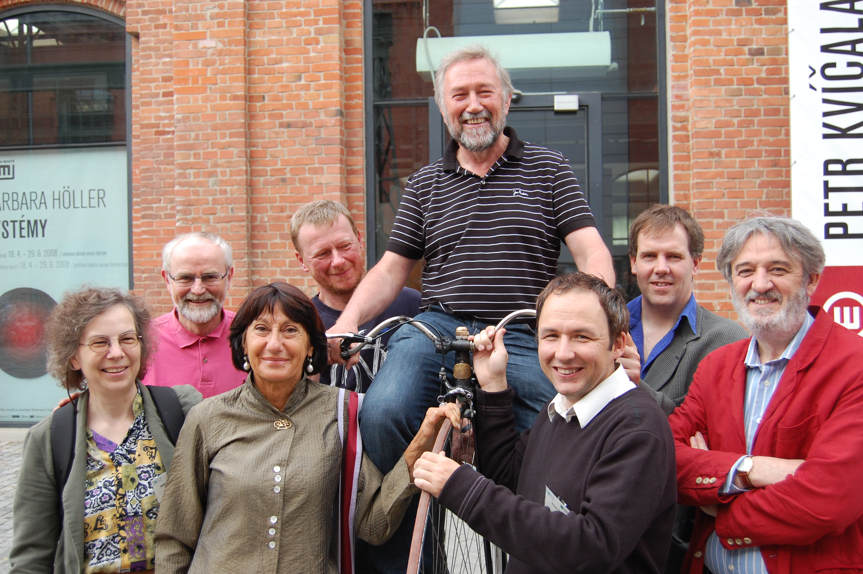 ECF Management committee at the General Assembly in BRNO 2008